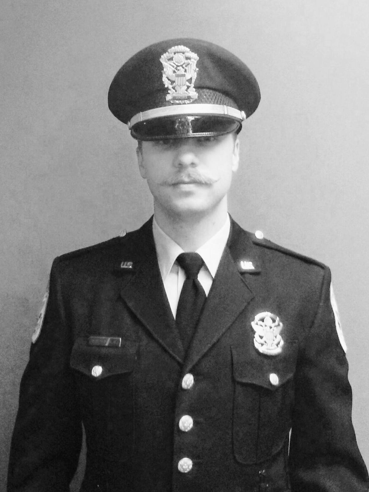 US Park Police Officer in Class A Dress Uniform and Mustache